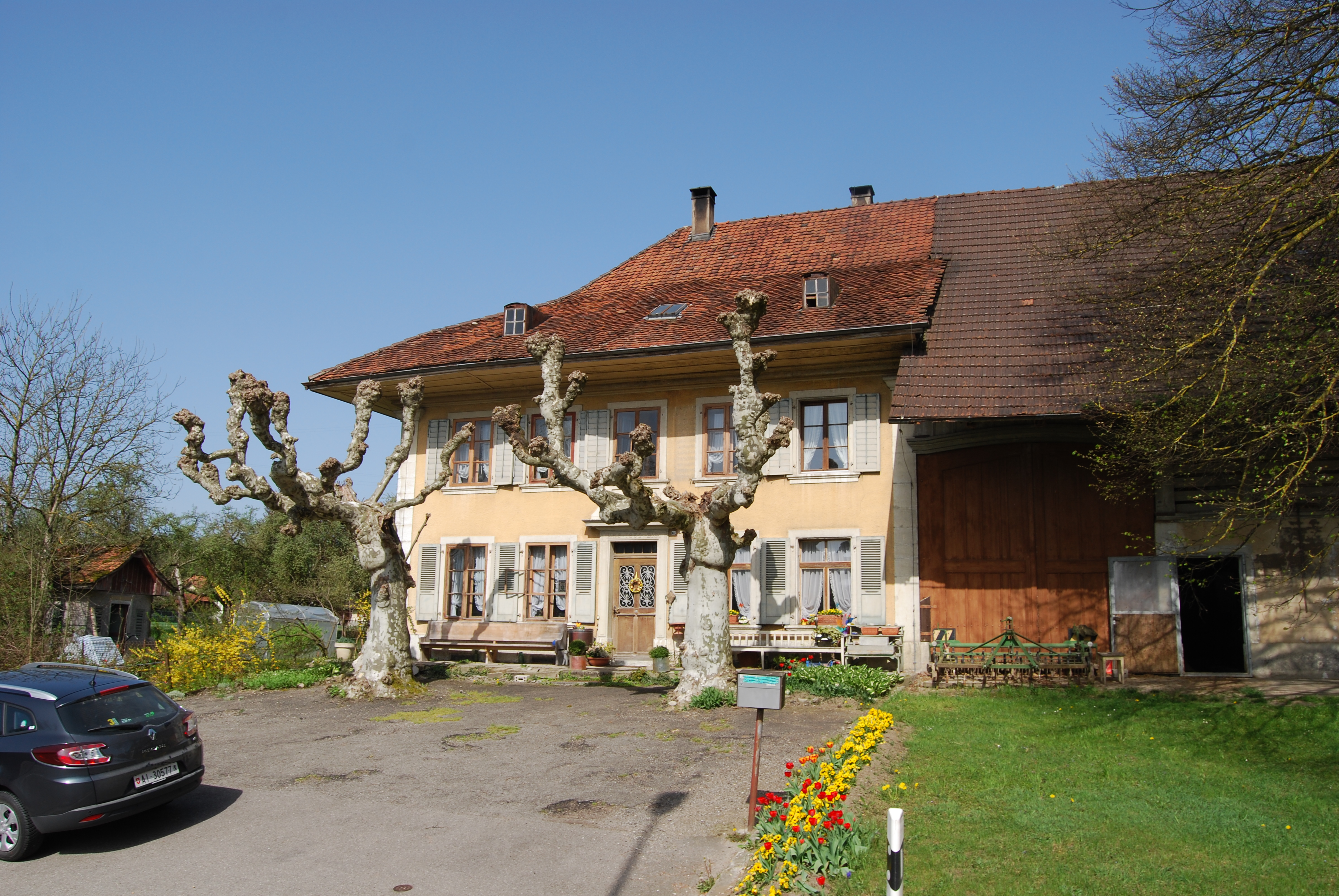 Schwarzhäusern, canton of Bern, SwitzerlandEsperanto: Schwarzhäusern, Kantono Berno, Svislando